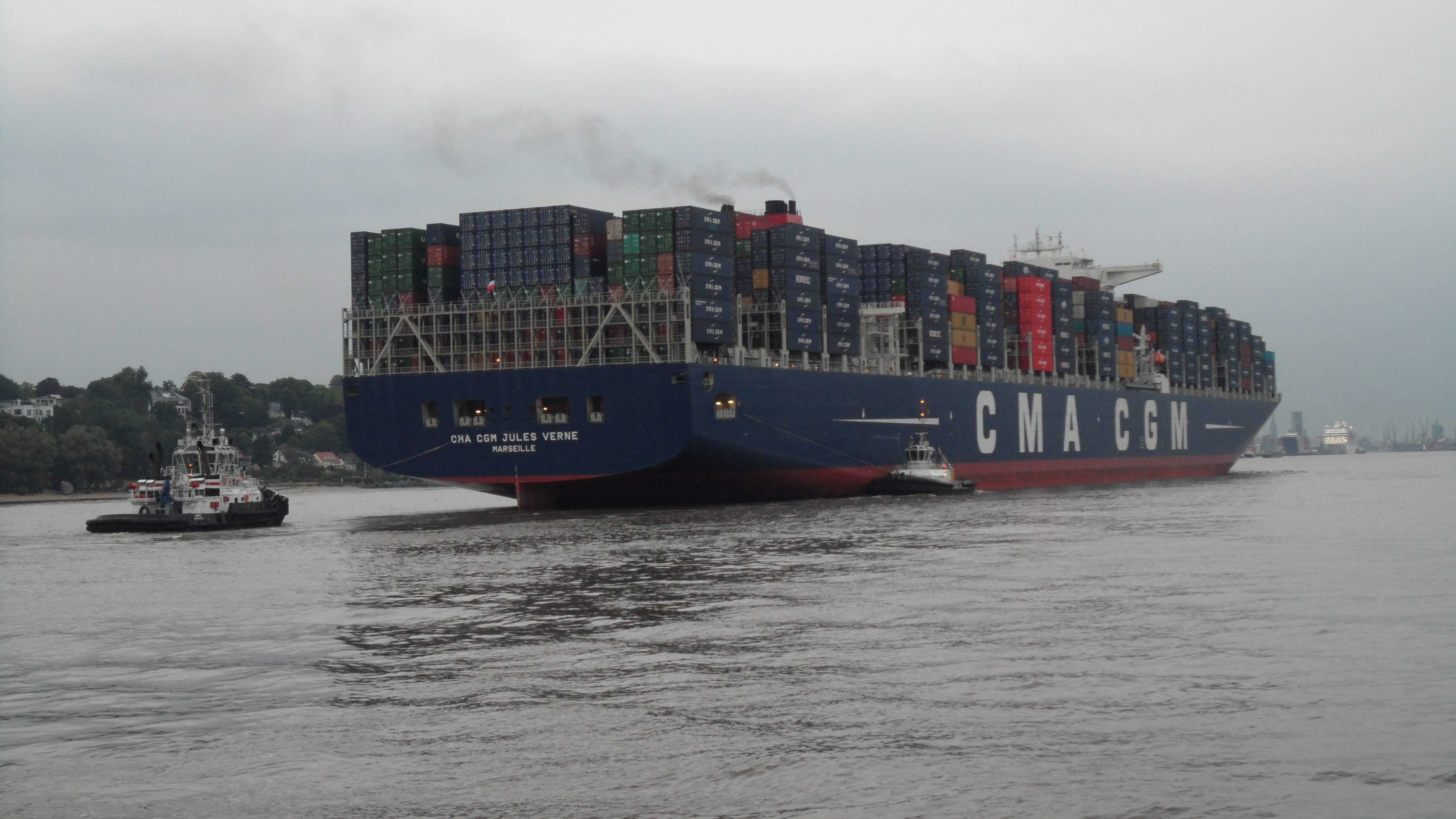 Container ship CMA CGM Jules Verne income Hamburg on 12 June 2013